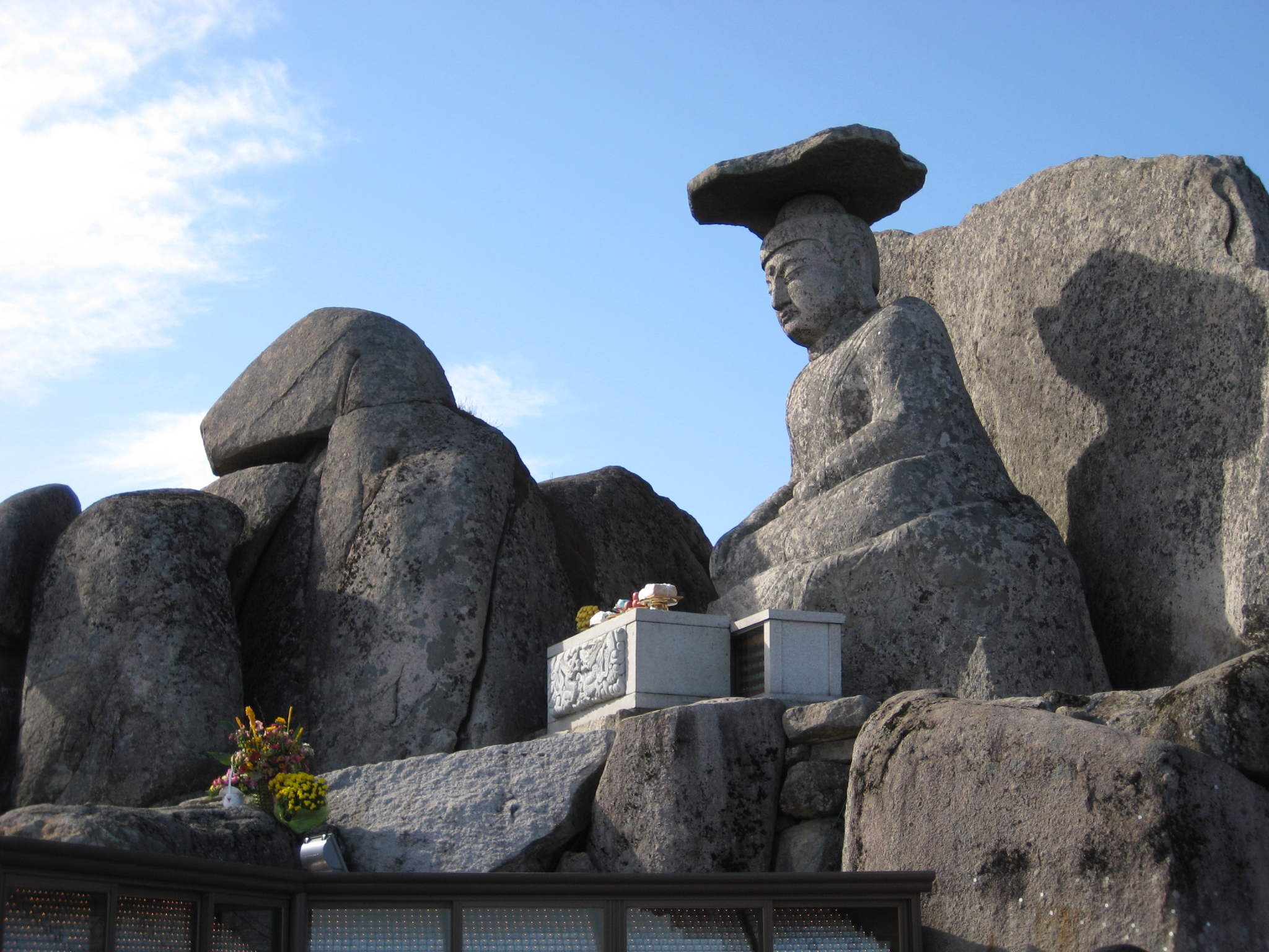 Gatbawi Buddha is a 4m tall granite Buddha sculpture. It gets its name from the Korean word 'gat', which is a traditional Korean hat. It is located at the Gwanbong Peak on the Eastern side of the Palgong mountains. Gwanbong is 850m high.